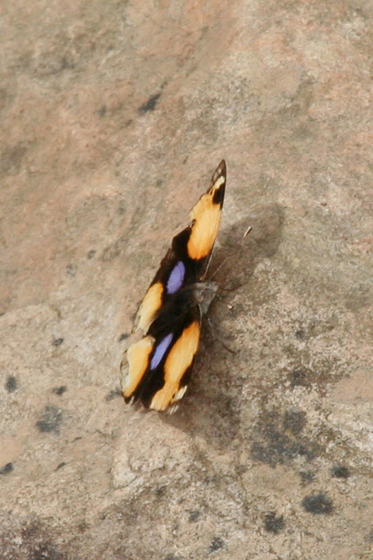 Junonia hierta (Fabricius, 1798), Yellow Pansy, . h. cebrene Trimen, 1870